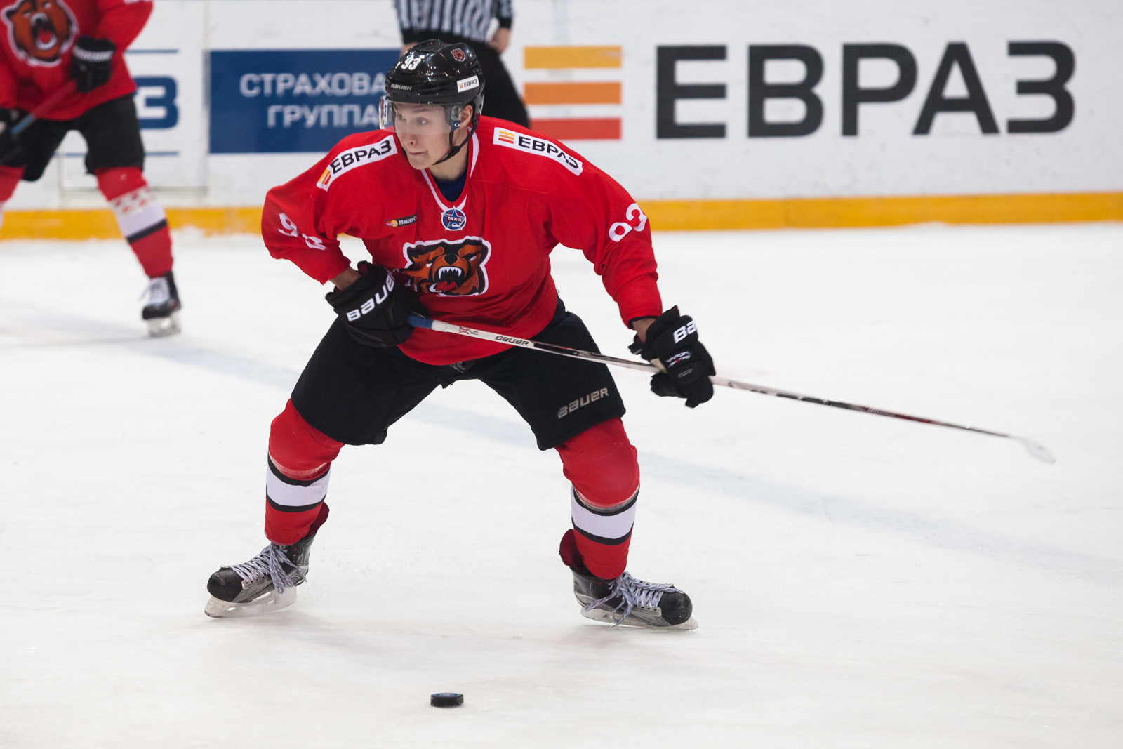 «Кузнецкие Медведи» на игре